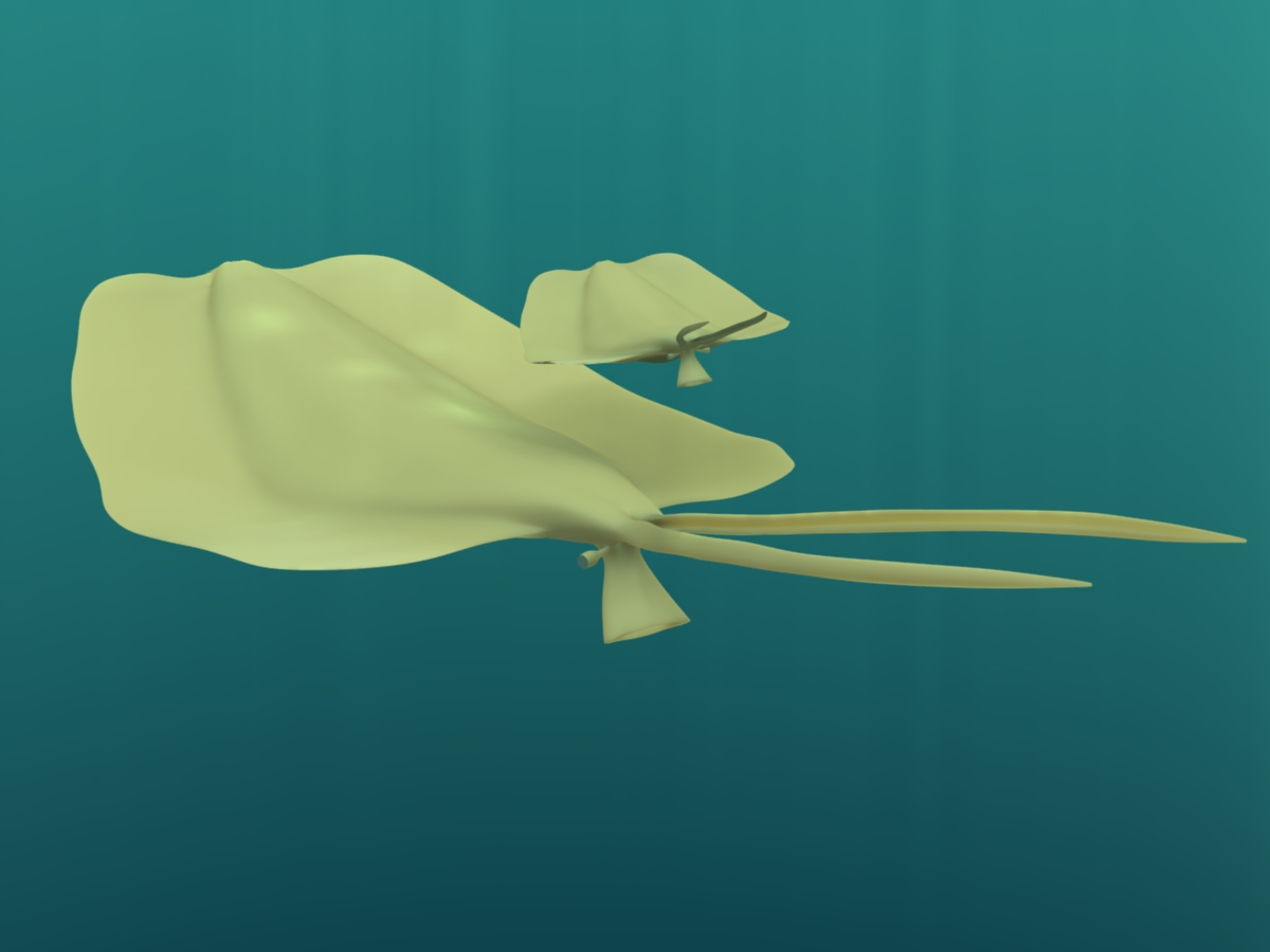 Reconstruction of the large and small morphs of 'Nectocaris pteryx from the Burgess Shale and Chengjiang.